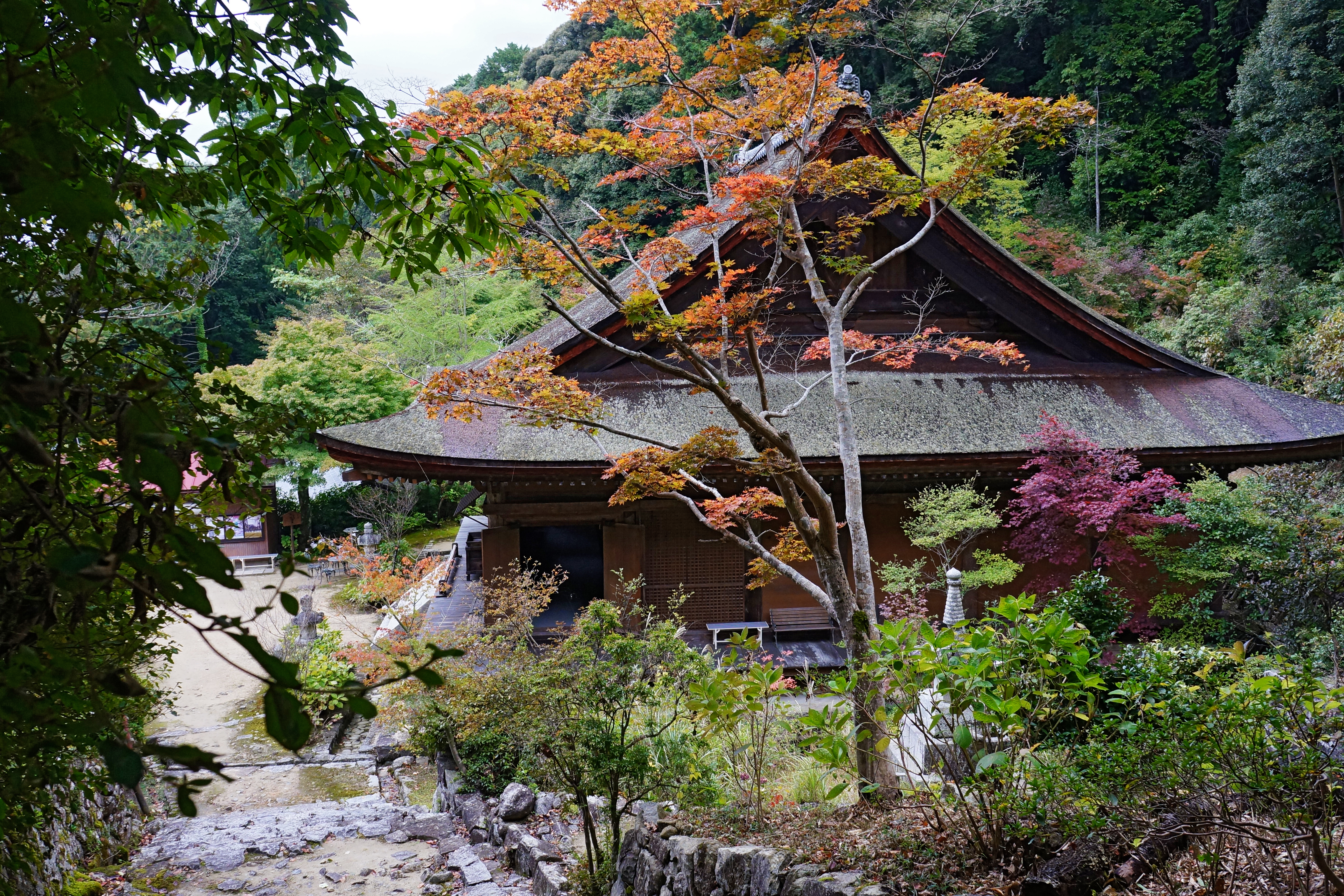 Kuwanomi-dera in Azuchi, Omihachiman, Shiga prefecture, Japan.